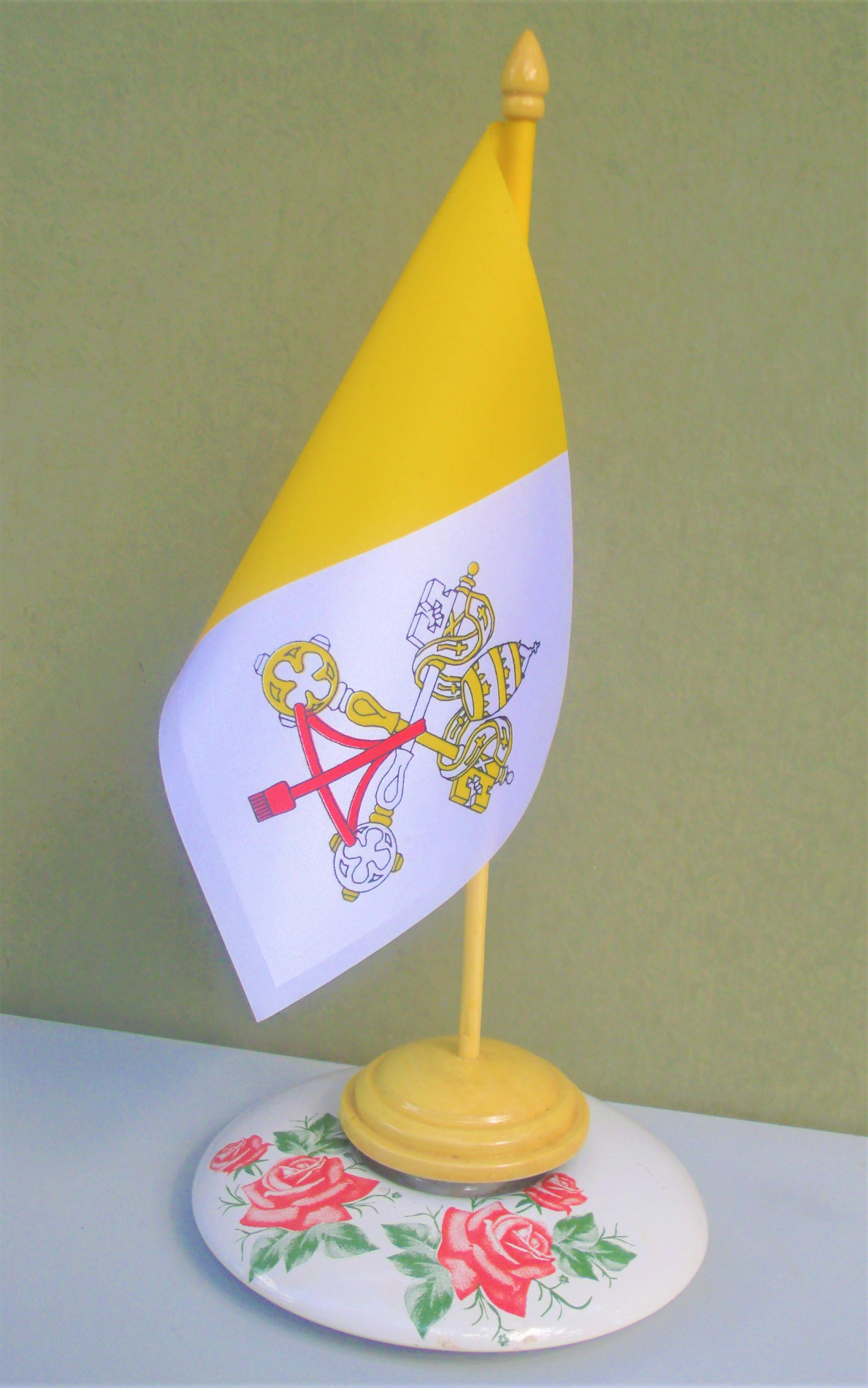 Table flag (Vatican).